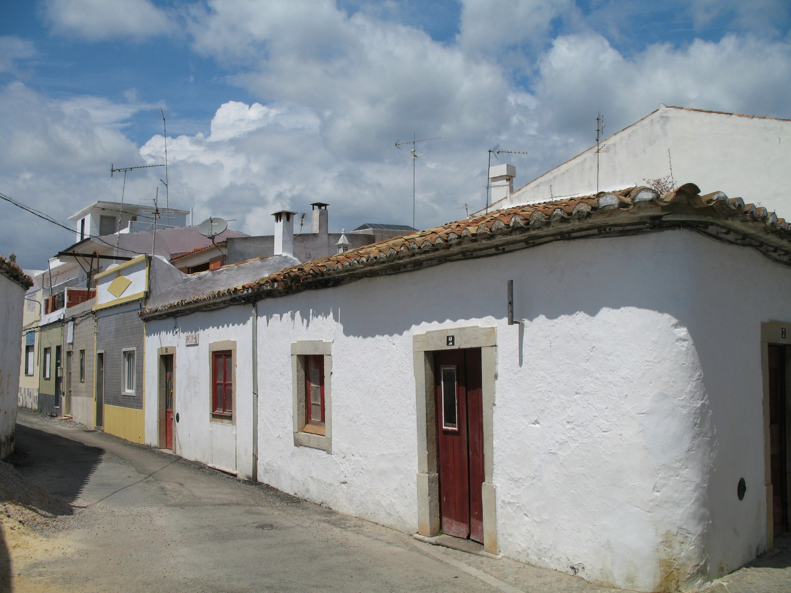 São Brás de Alportel (Algarve, Portugal): old houses